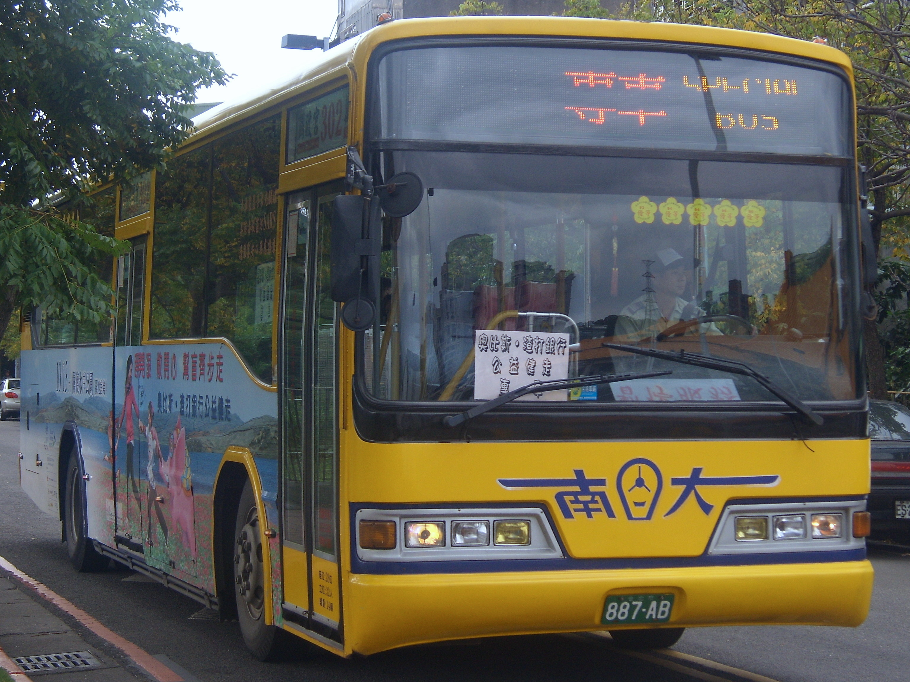 A Shuttle Bus of Taiwan Orbis and Standard Chartered Bank Charity Walking by Danan Bus Co., Ltd.